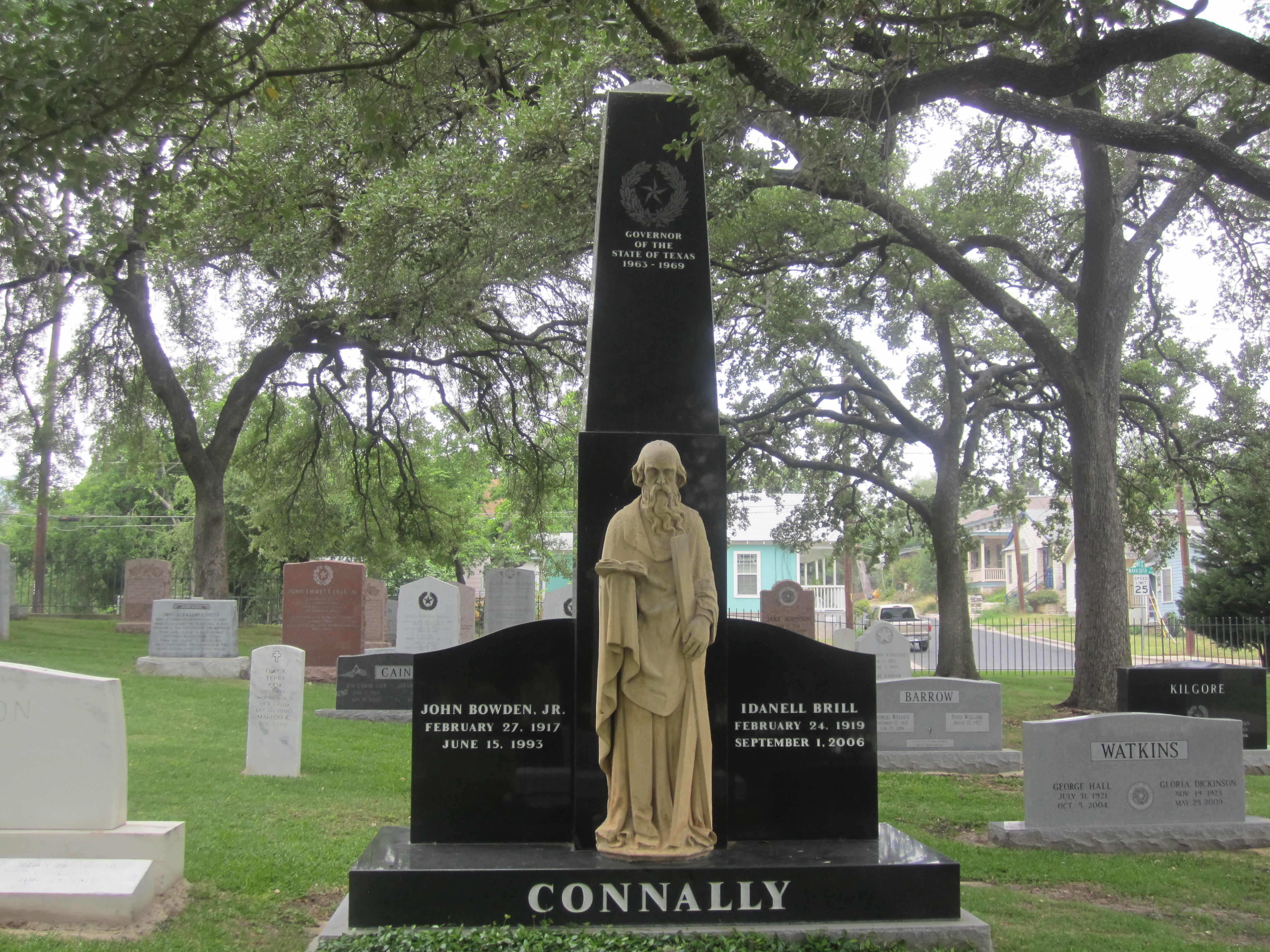 I took photo with Canon camera at Texas State Cemetery in Austin: Connally gravestone.